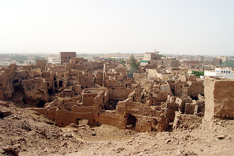 Old village of Mut, el-Dakhla depression, Libyan Desert, Egypt